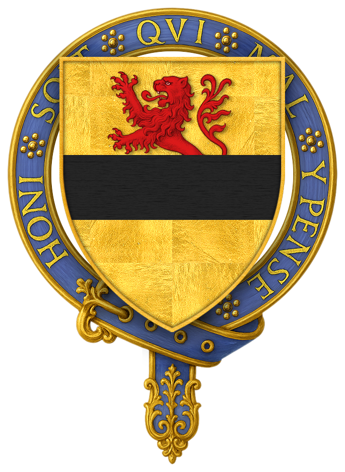 Coat of Arms of Sir Henry Eam, KG